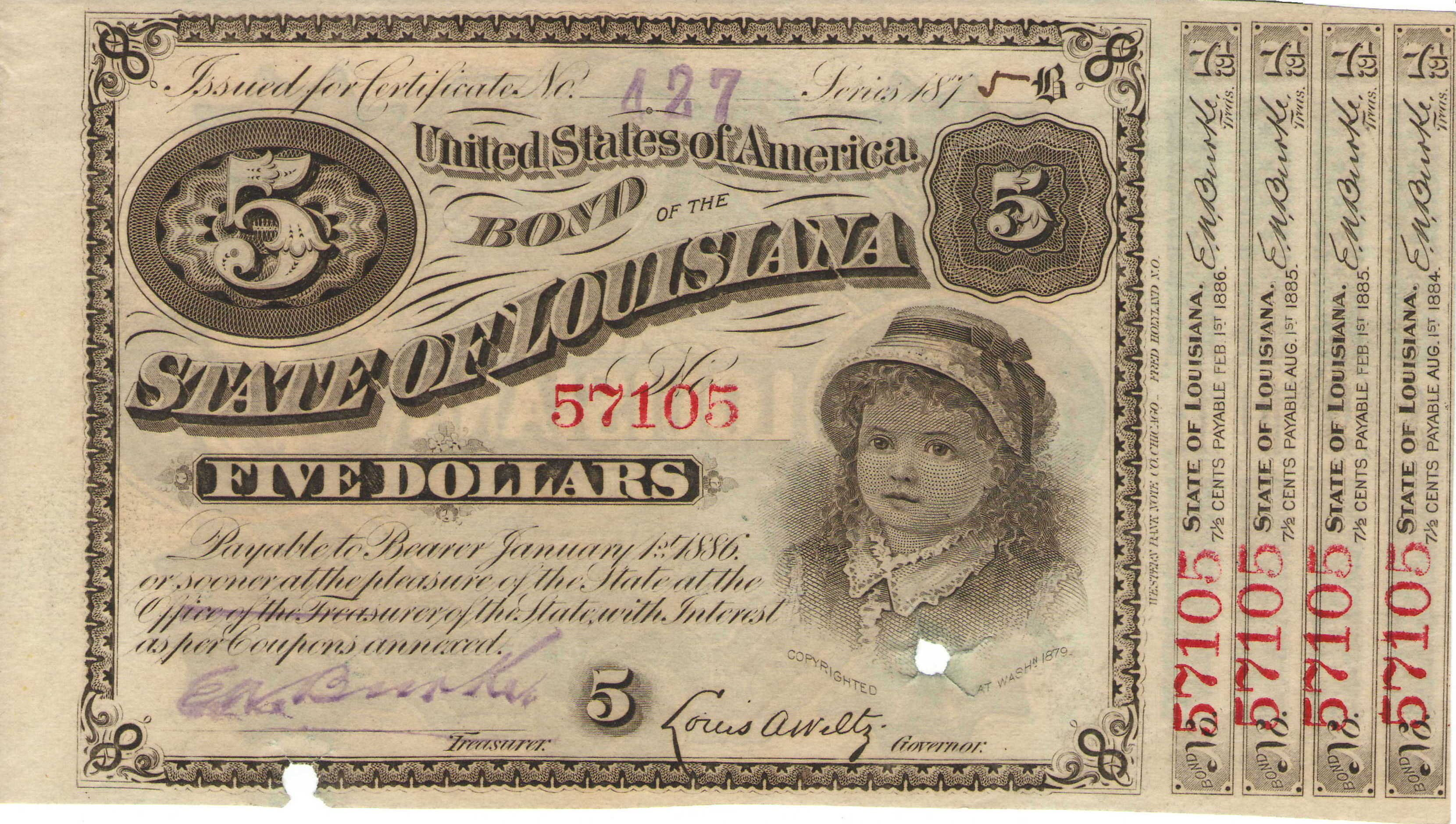 Louisiana baby bond with Burke's signature in violet. Copyrighted 1879; copyright expired.